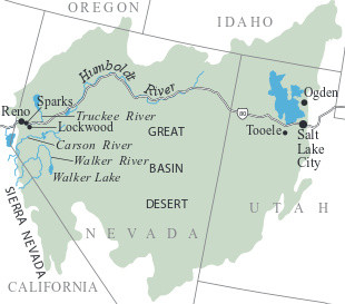 Map of the Central Basin and Range ecoregion, as defined by the U.S. Environmental Protection Agency